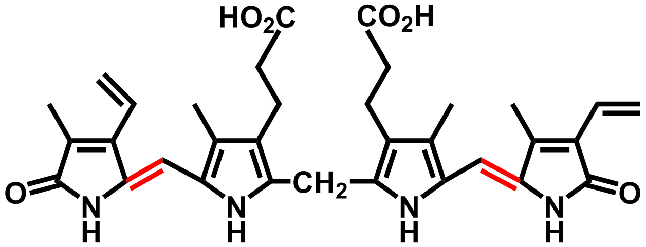 Correct formula of natural (Z,Z)-bilirubin